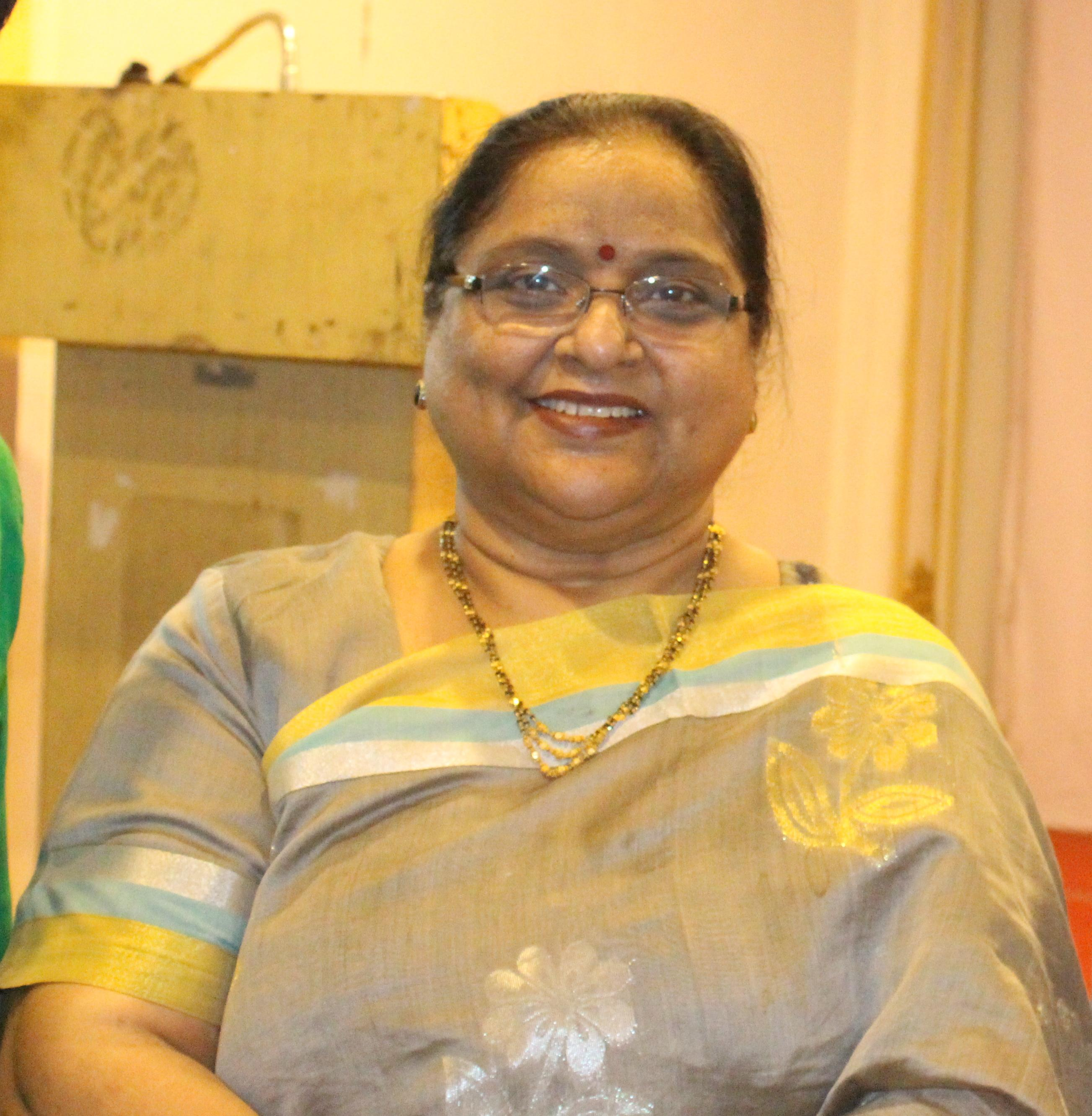 Roja Ramani in Cinivaram, Ravindra Bharathi, Hyderabad